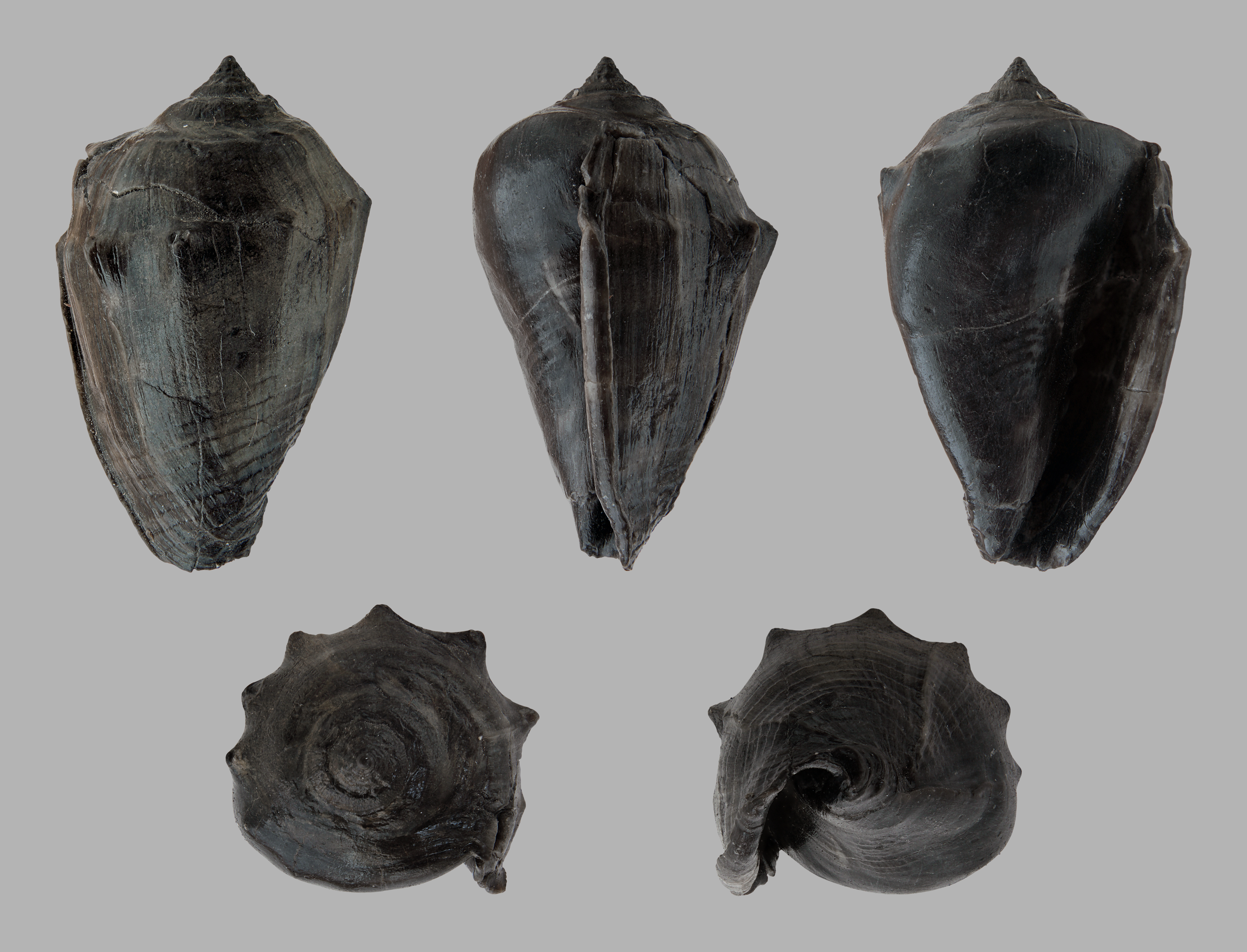 Length 4 cm; Miocene; Weitendorf; Austria; Shell of own collection, therefore not geocoded. Dorsal, lateral (right side), ventral, back, and front view.